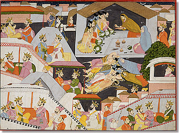 Draupadi and Kunti with the Pandavas India, Punjab Hills, Kangra, ca. 1800. Opaque watercolor and gold on paper. Lent by a private collection. This painting from a manuscript of the Mahabharata epic illustrates an early episode in which the five Pandava brothers, disguised as Brahmin ascetics, have won an archery contest by which they secure the lovely Draupadi as bride and bring her to their mother. Several episodes are depicted on this page in a series of vignettes in which the characters appear repeatedly to indicate the passage of time. Draupadi's independence and fearless spirit, evident throughout the period, is a product of her upbringing as a warrior's daughter. We see Draupadi, the Pandavas, and their mother, Kunti, eating a meal; then their figures are repeated as they lie down to sleep. Draupadi's brother eavesdrops on their nighttime conversation to ascertain the identity of the ascetics. He then hastens back to report to his father to stop worrying about Draupadi, because the ascetics are indeed princes in disguise. It is quite naturally important that the daughter of a monarch be married to one of royal blood.